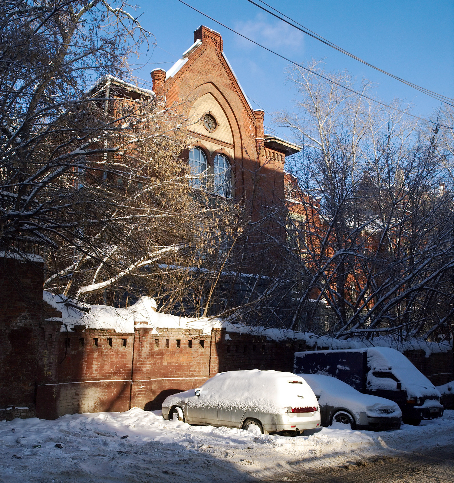 Obukha Lane, Moscow.